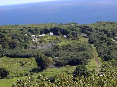 Small village on the Hana road in Maui. Photo by LDC, released to the public domain.